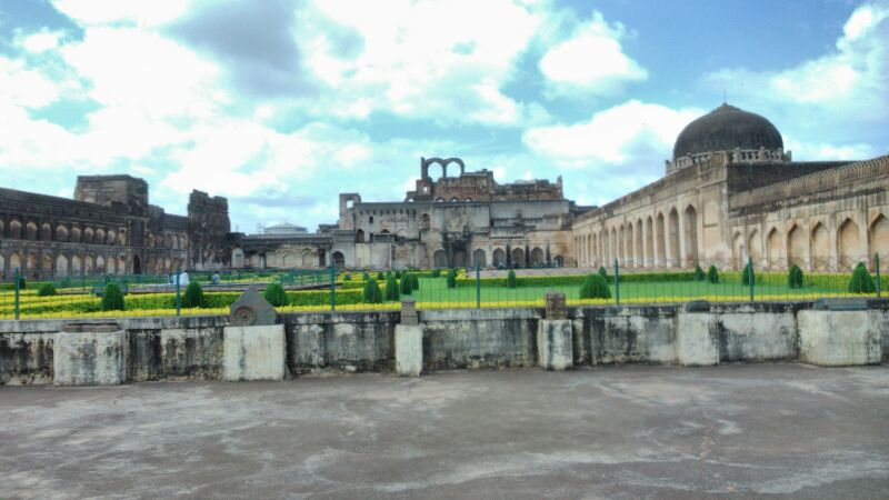 Bidar Fort